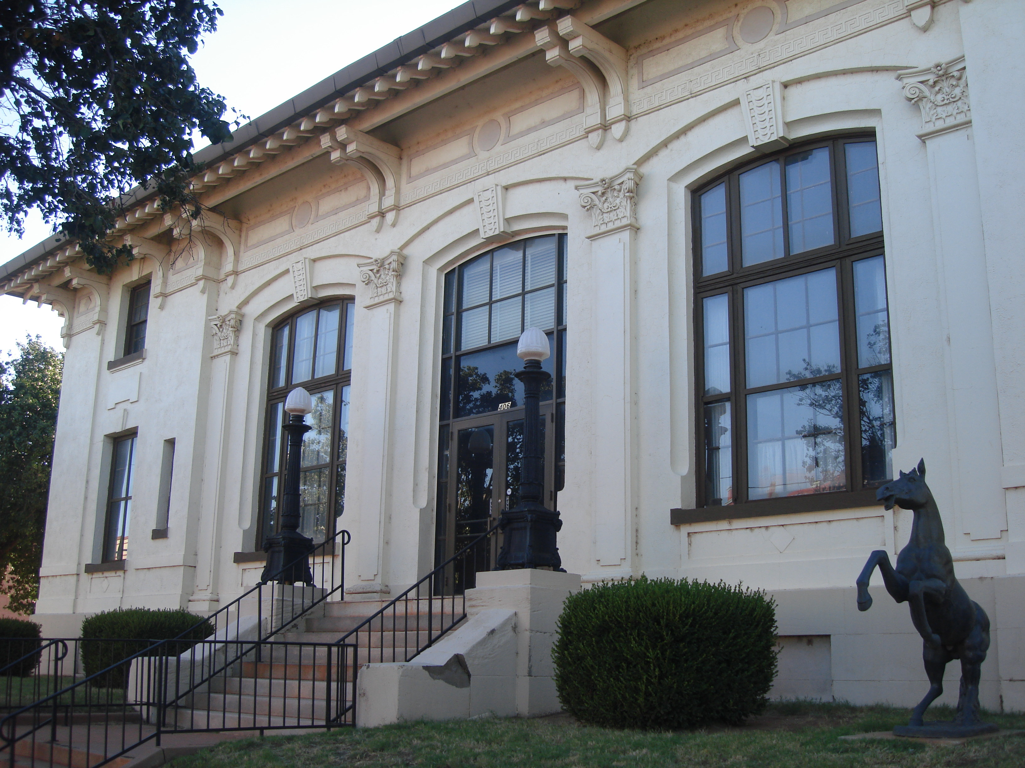 Kingfisher, OK USA - U.S. Land Office 1889